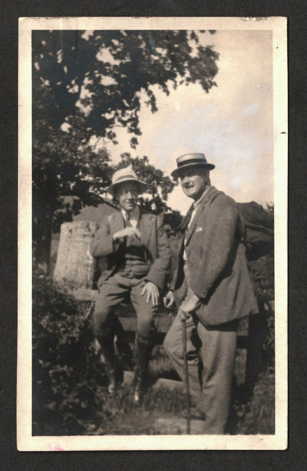 The composers Gustav Holst and Ralph Vaughan Williams walking in the Malvern Hills, September 1921. Holst on the left is sitting on a gate, while Vaughan Williams on the right is leaning on the same gate.